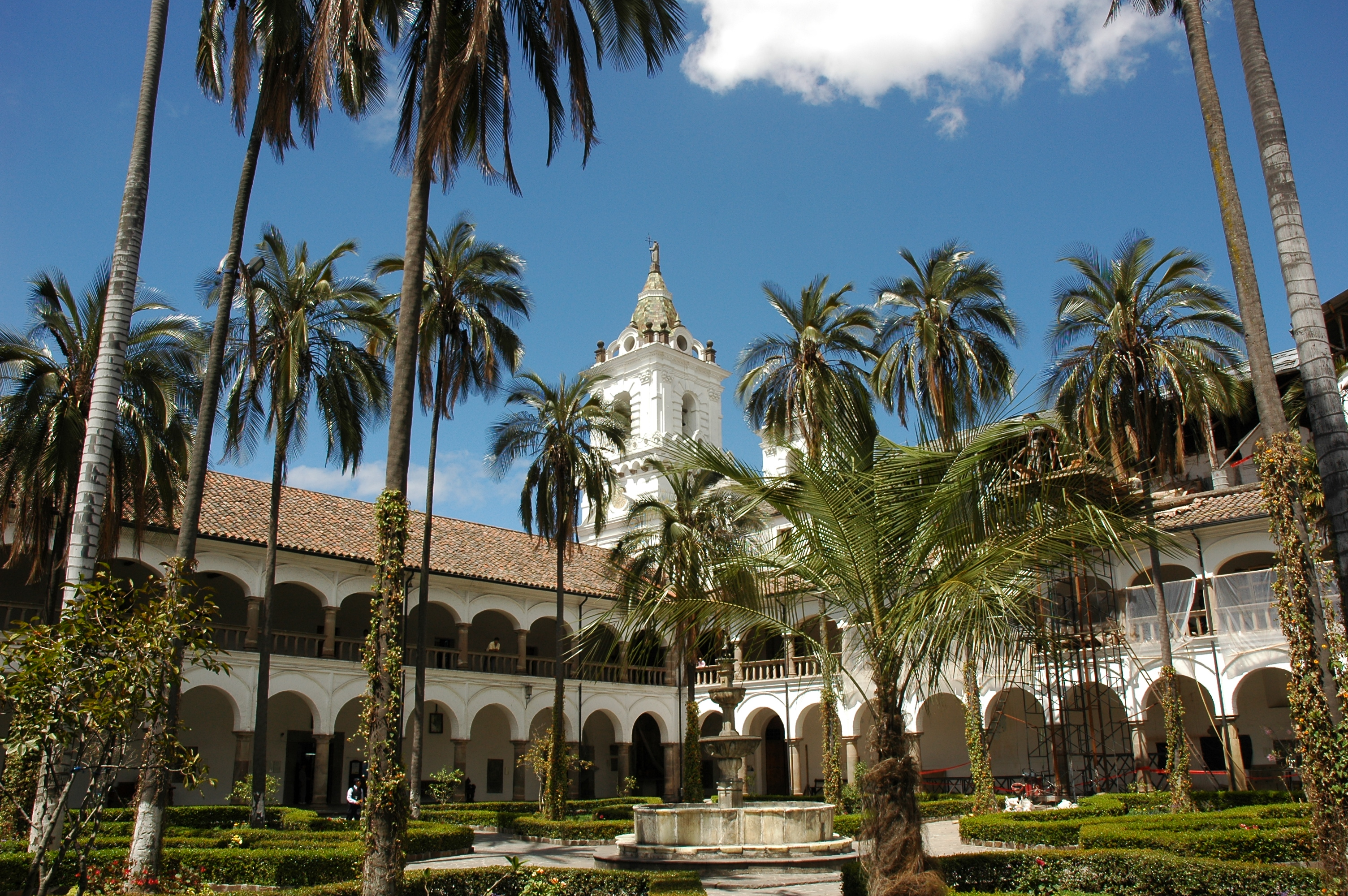 Courtyard of the Convent of St. Francis, Quito